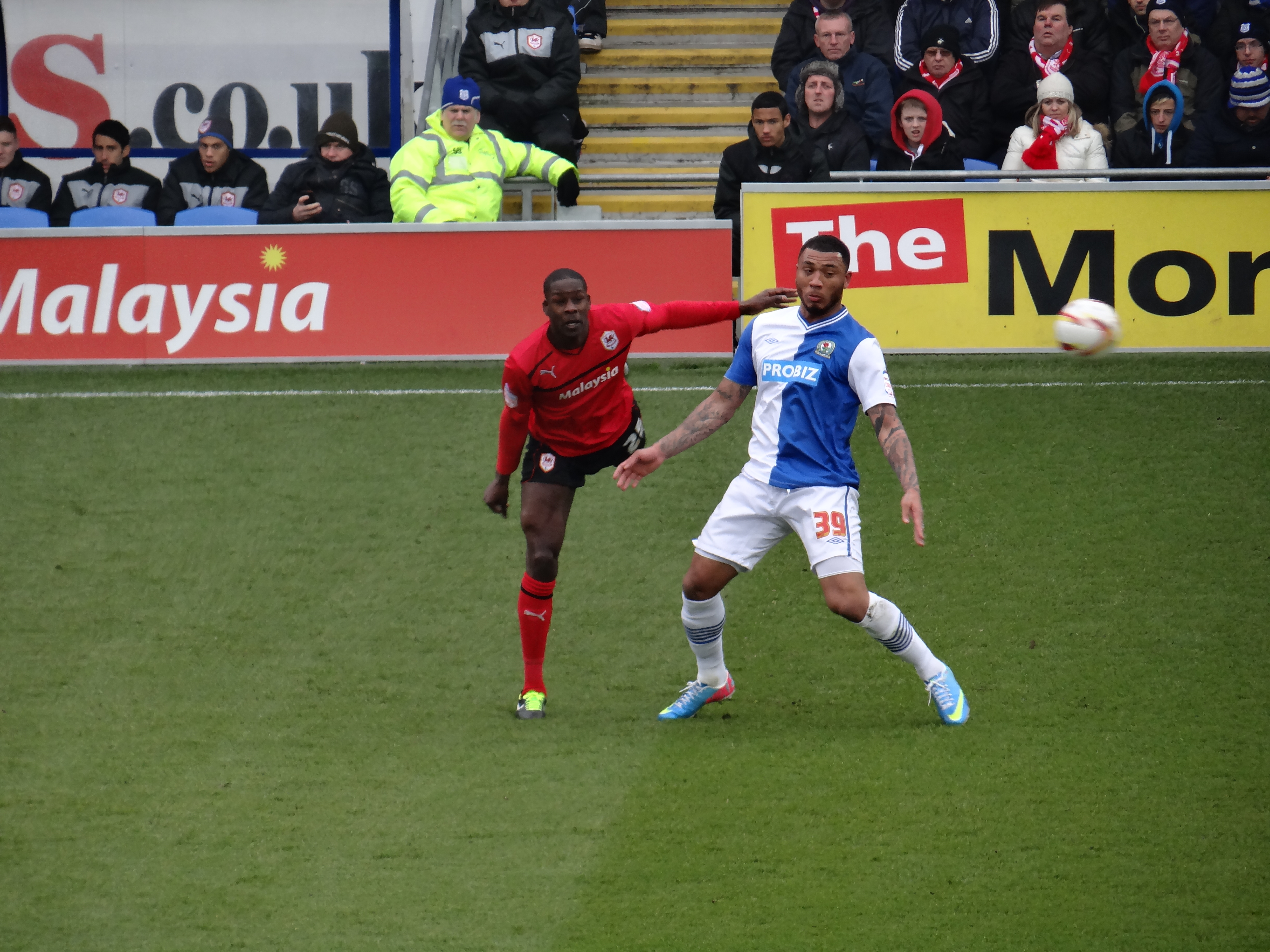 01/04/13 Cardiff City v Blackburn Rovers, Championship, Cardiff CIty Stadium, Cardiff, Wales